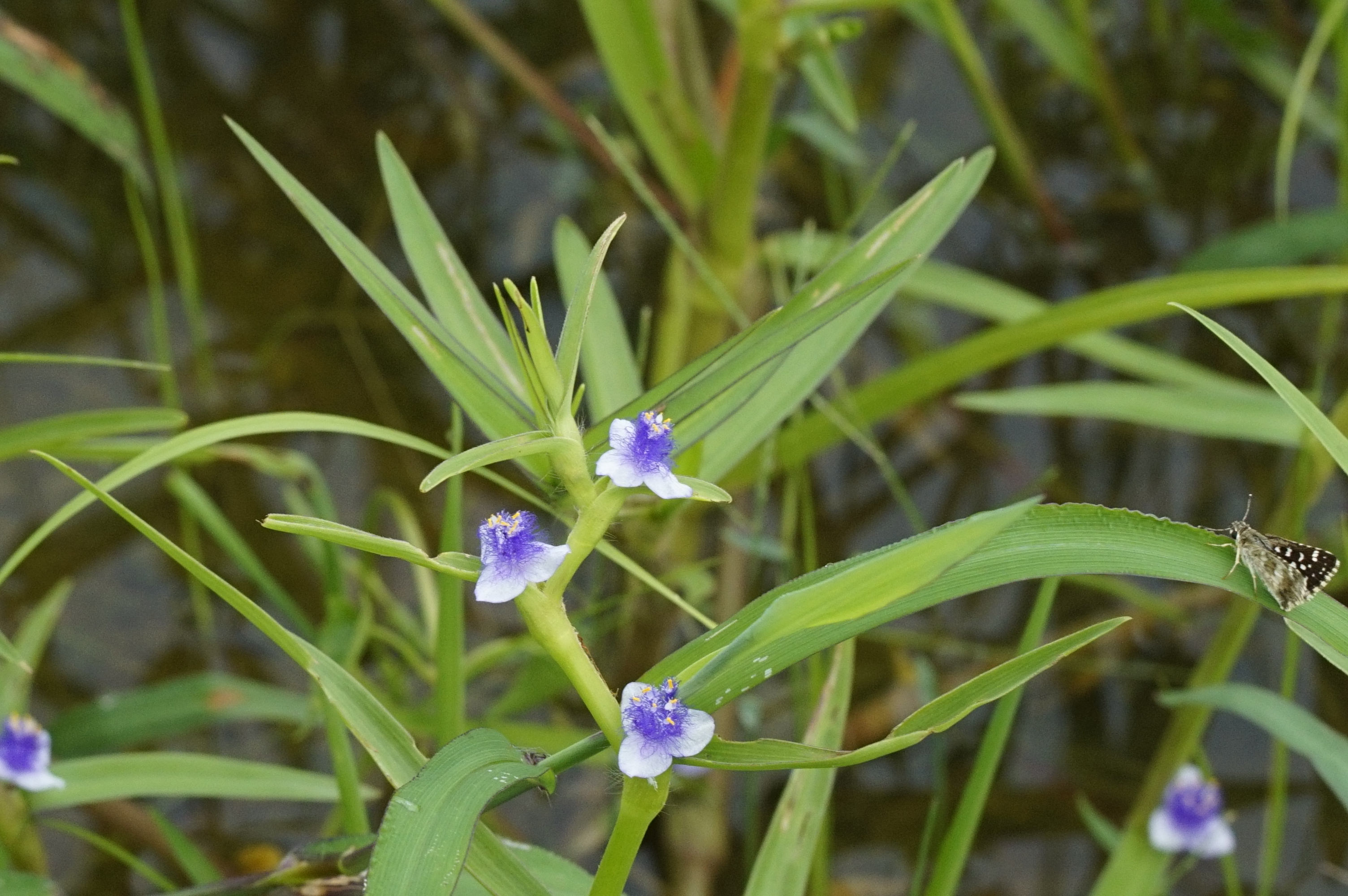 Cyanotis axillaris @ Angadipuram